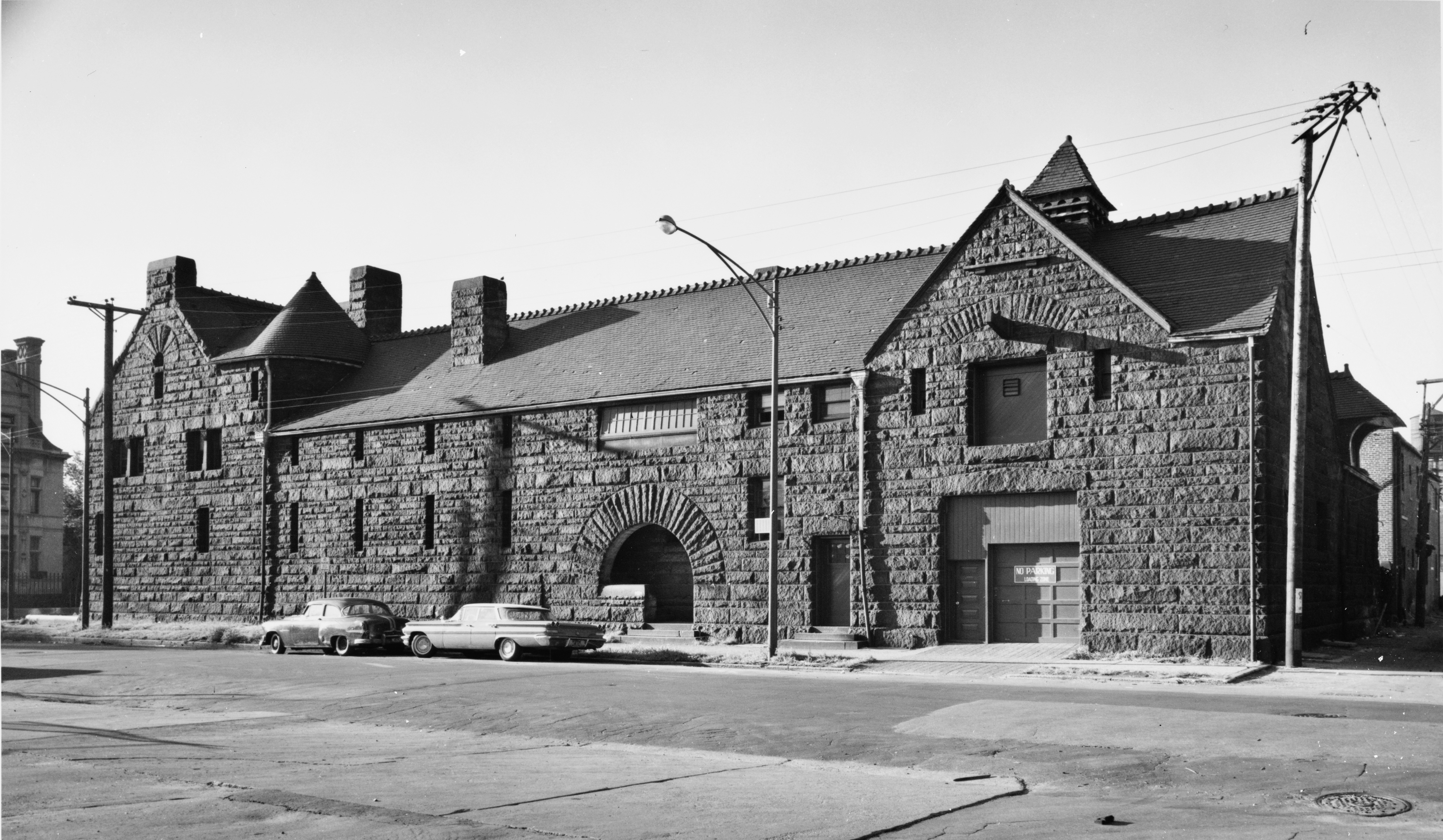 The John J. Glessner House in Chicago, Illinois - exterior from northwest.